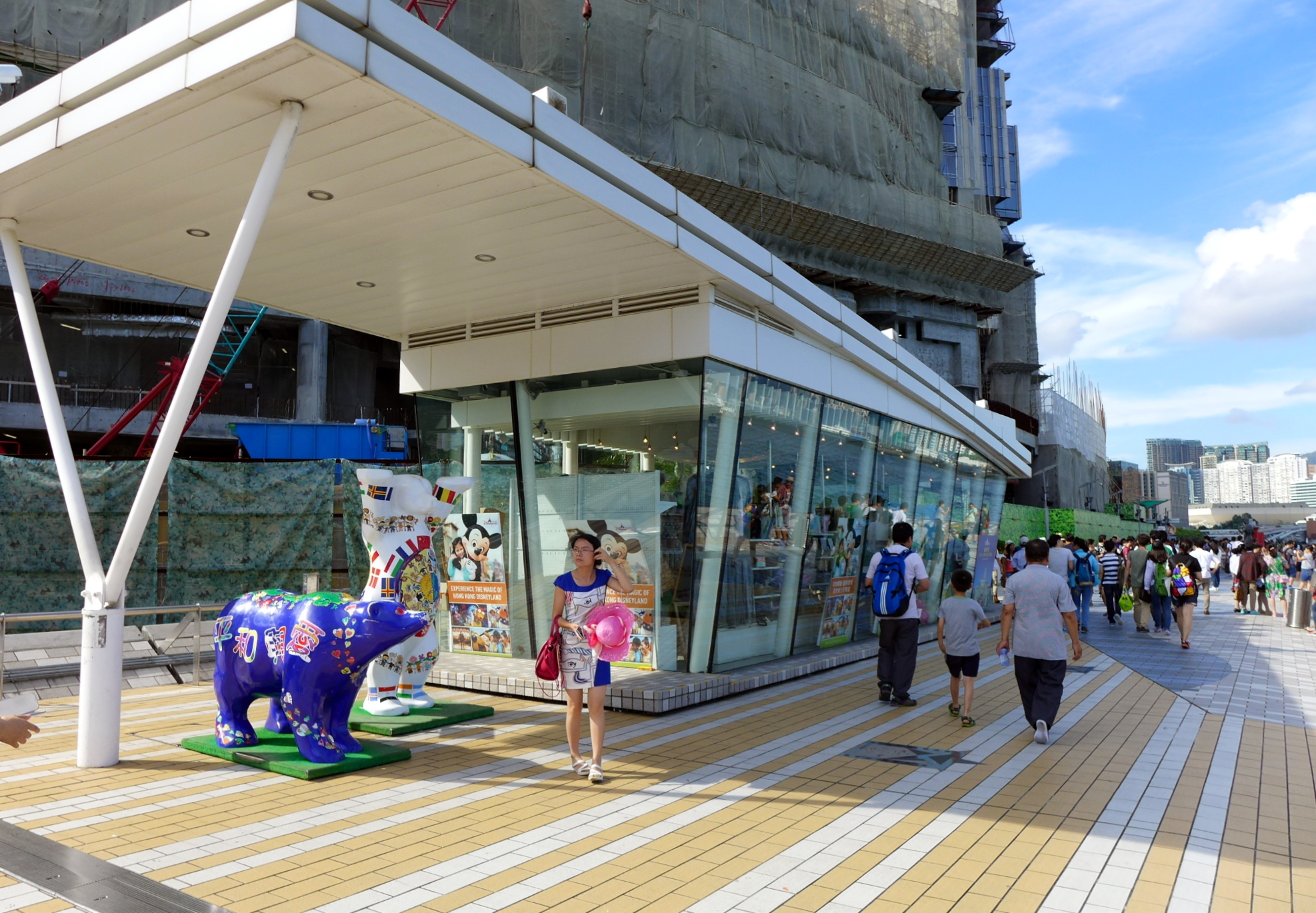 Avenue of Stars Souvenir Shop